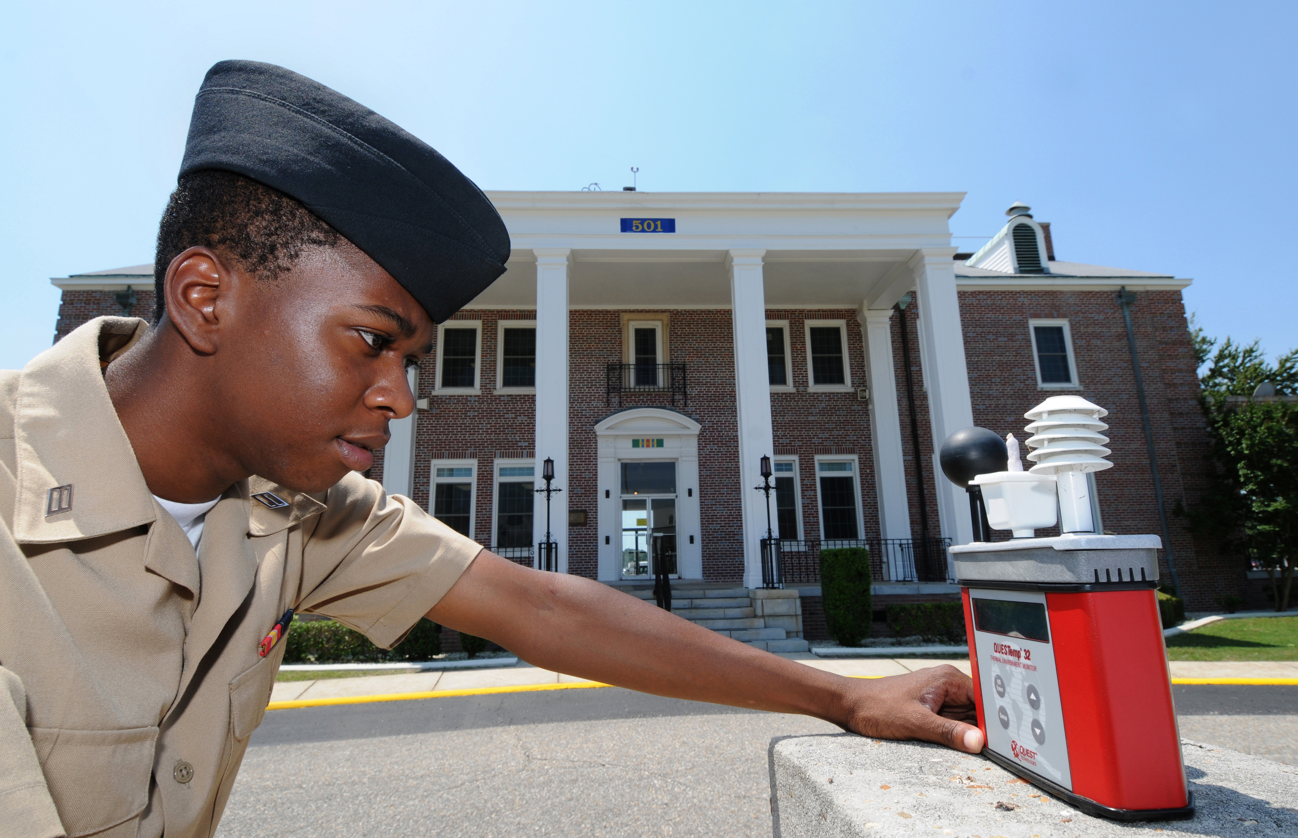 PENSACOLA, Fla. (May 24, 2010) Cryptologic Technician (Technical) Seaman Antron Johnson-Gray, a student at the Center for Information Dominance (CID) Corry Station, checks the wet bulb globe temperature meter, or WBGT meter, at Corry Station. The WBGT index indicated the base would be flying the black flag for the first time in 2010, indicating vigorous outdoor exercise, regardless of conditioning or heat acclimatization, is not advisable. (U.S. Navy photo by Gary Nichols/Released)